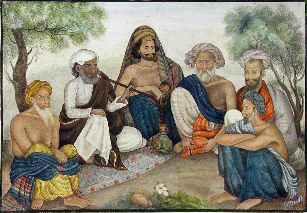 Suite Name: Frazer album Display Artist: Artist Unknown Creation Date: ca. 1816 Display Dimensions: 8 1/8 in. x 11 15/32 in. (20.6 cm x 29.1 cm) Credit Line: Edwin Binney 3rd Collection Accession Number: 1990.396 Collection: The San Diego Museum of Art